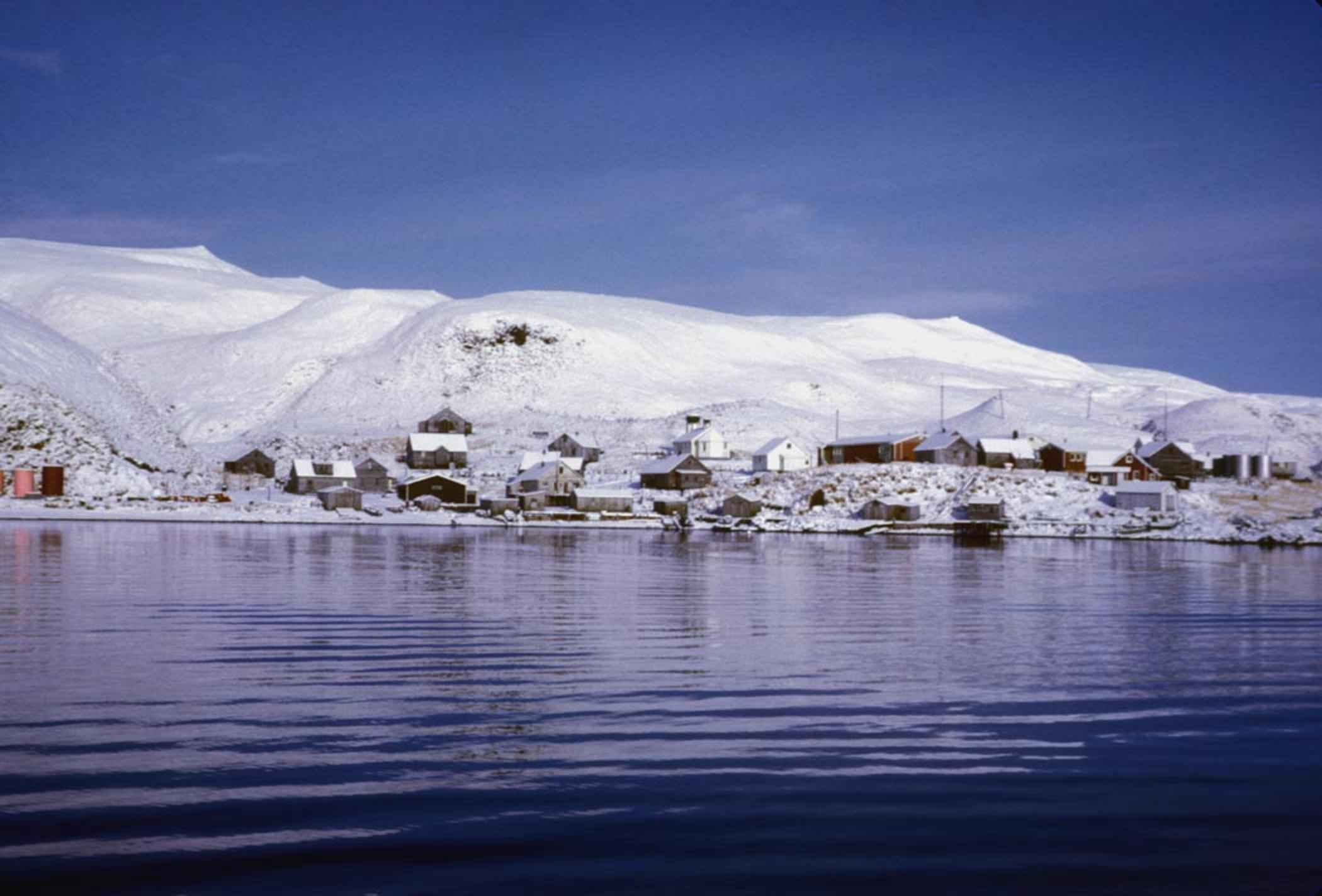 Scenic view from the water of a village on the island of Atka in the Aleutian islands.